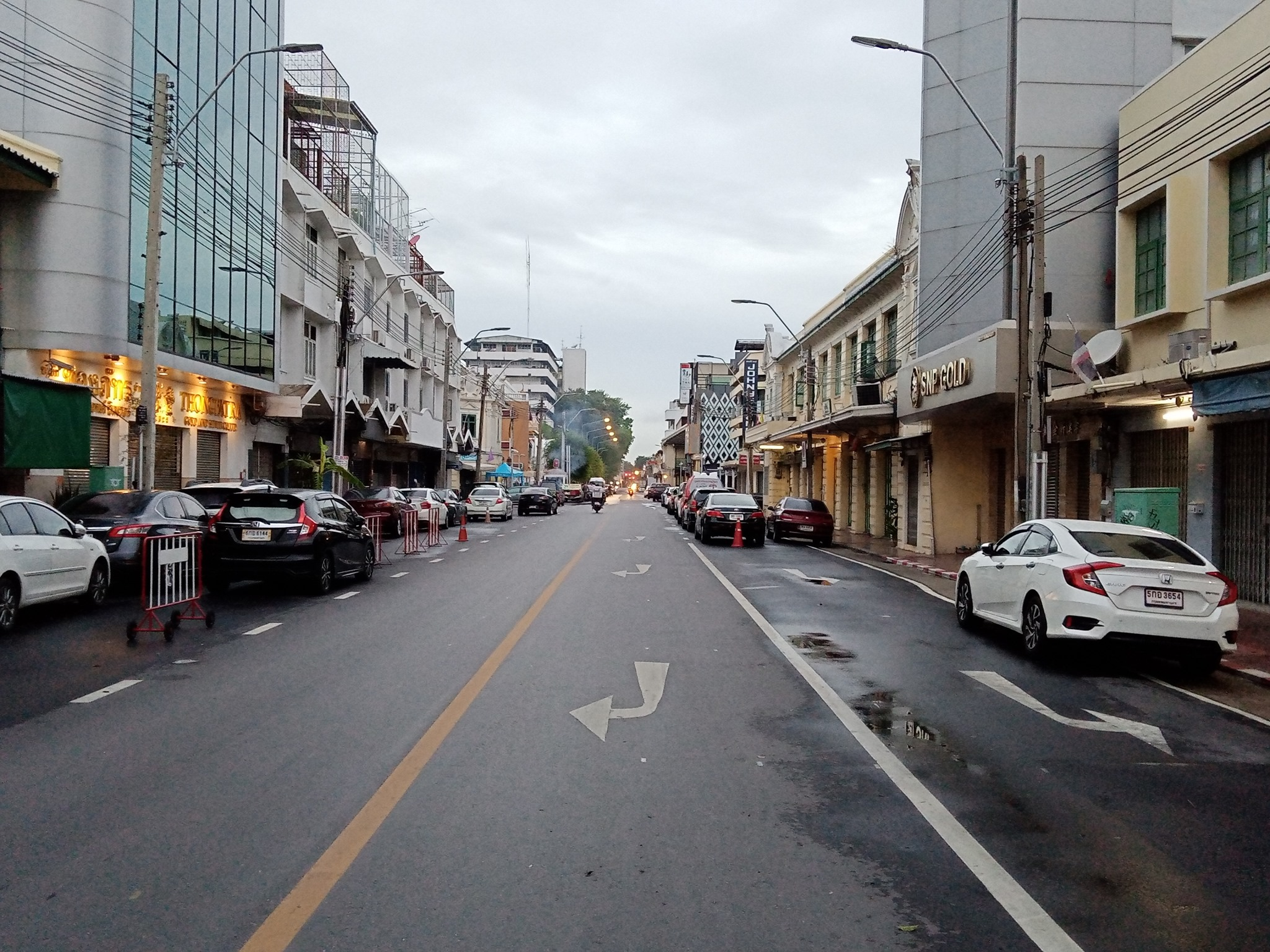 Fueang Nakhon Road, the one of three first roads in Thailand